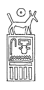 Seth and Re over the Serekh of Peribsen